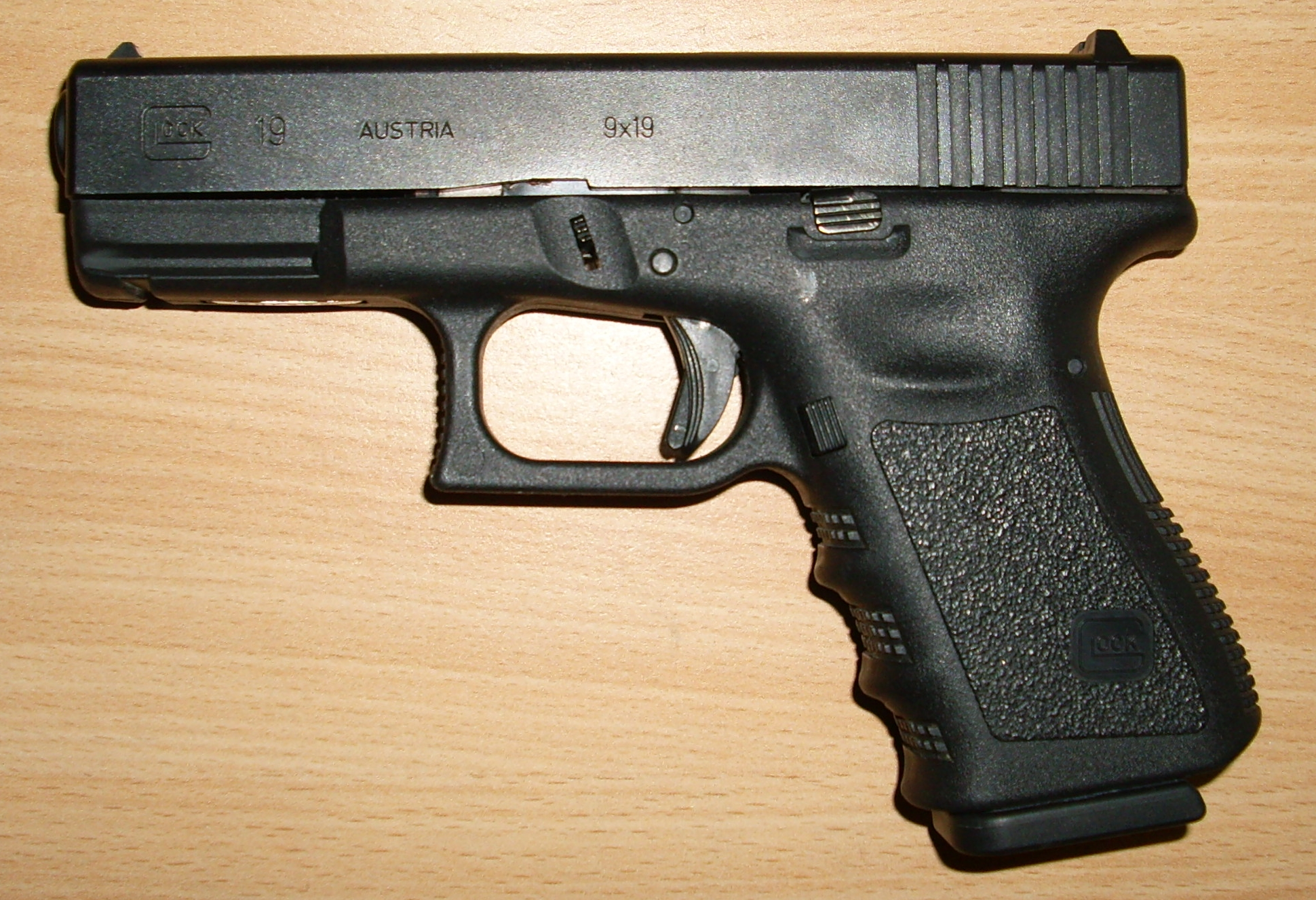 Compact Glock 19 in 9x19mm Parabellum.